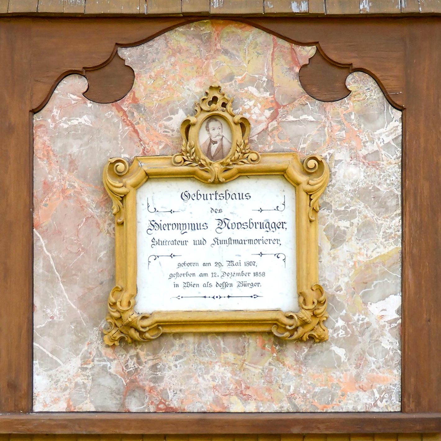 Hieronymus Moosbrugger - Memorial tablet